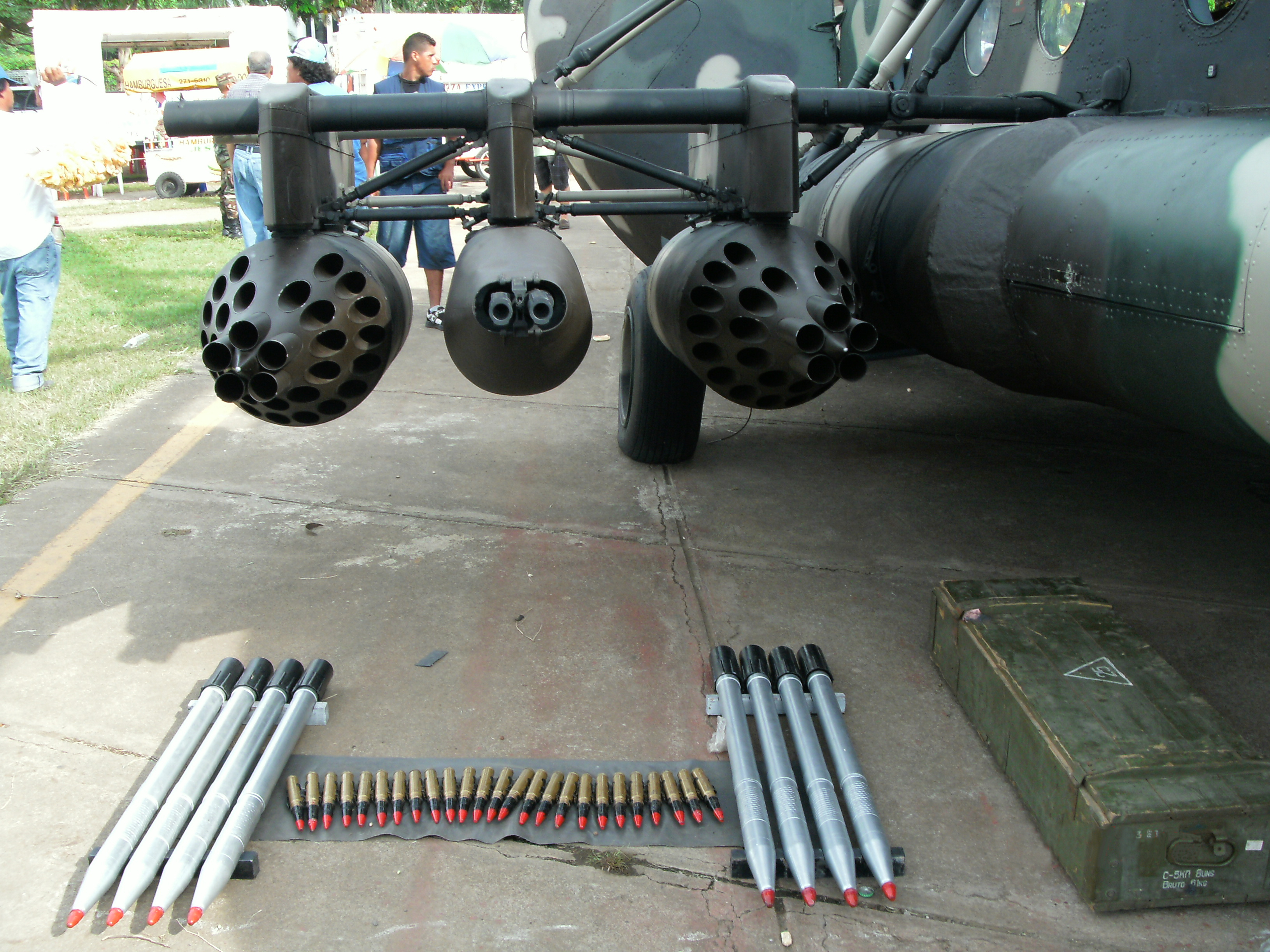 Rocket launchers, guns and munition of a Mi-17, Nicaraguan Air Force during an open static exhibition of the 30th anniversary of the Nicaraguan Army. 19-08-2009